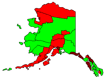 Map of boroughs and census areas in the U.S. state of Alaska. Green areas are census areas, brown are consolidated city-boroughs, and red are other boroughs.